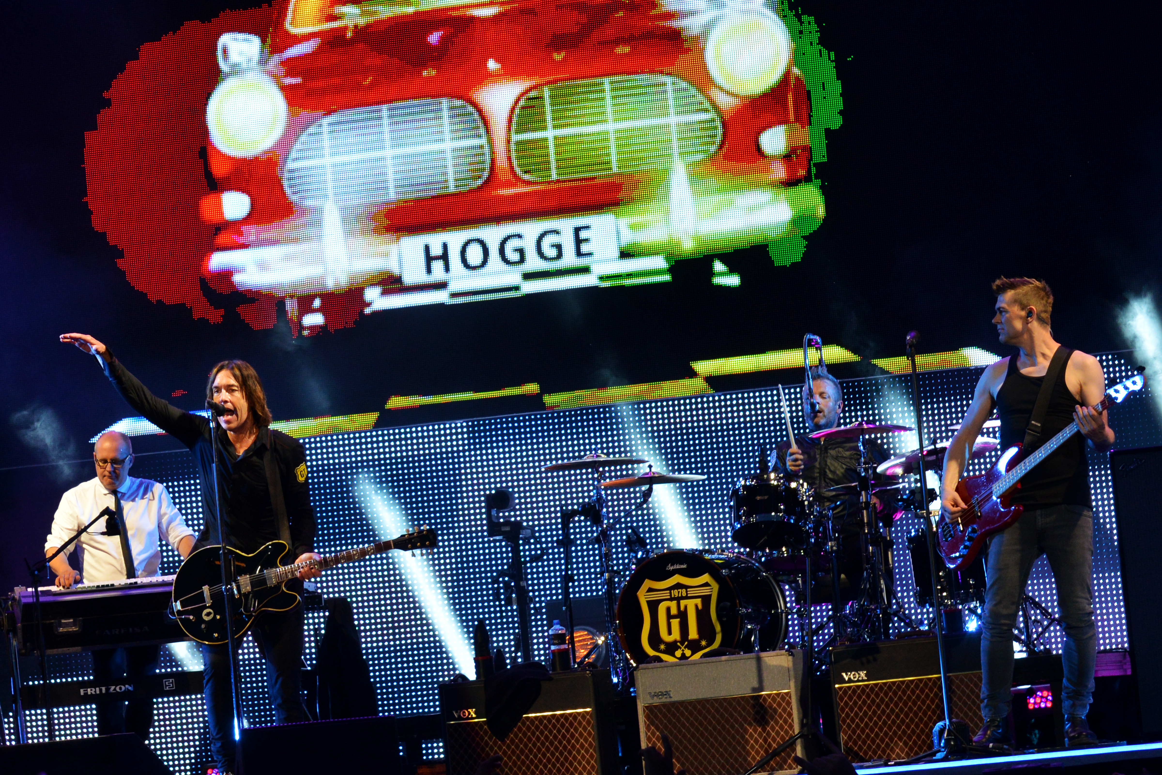 Gyllene Tider during the tour "Time To Think On The Refrain"